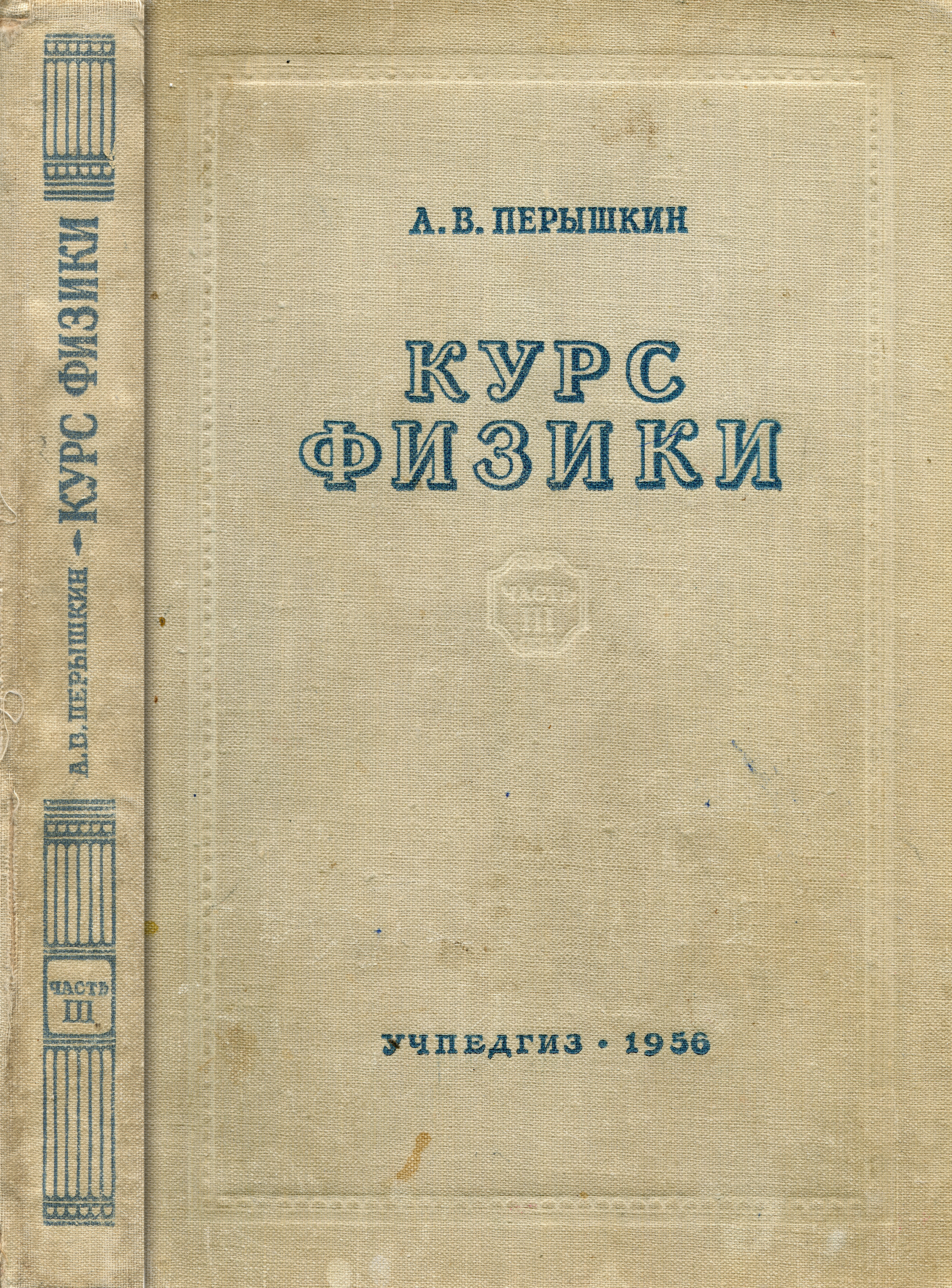 Peryshkin. Collected paper on physics